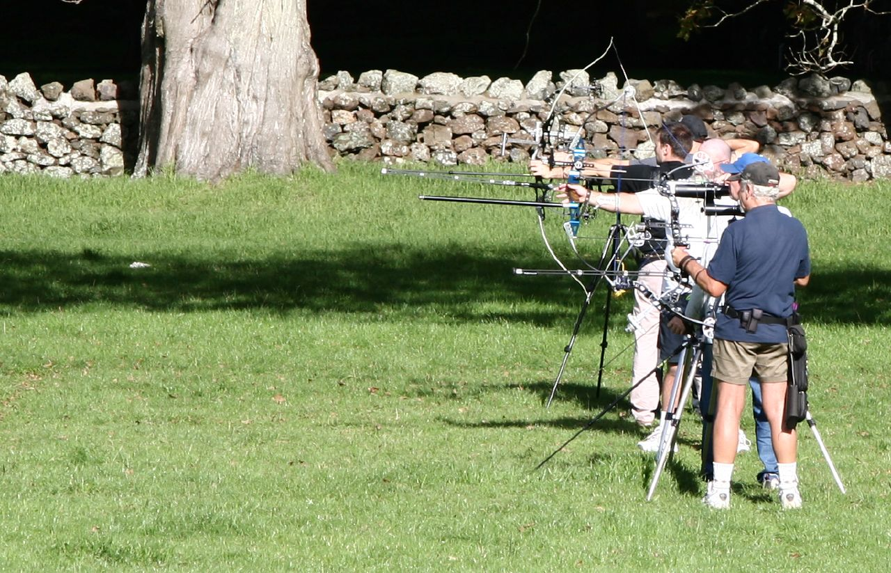 Archery in Cornwall Park